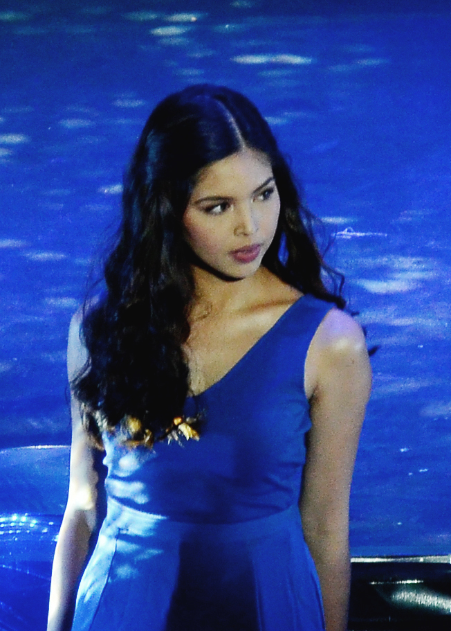 stares